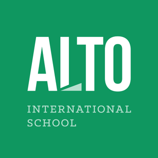 Logo der Schule